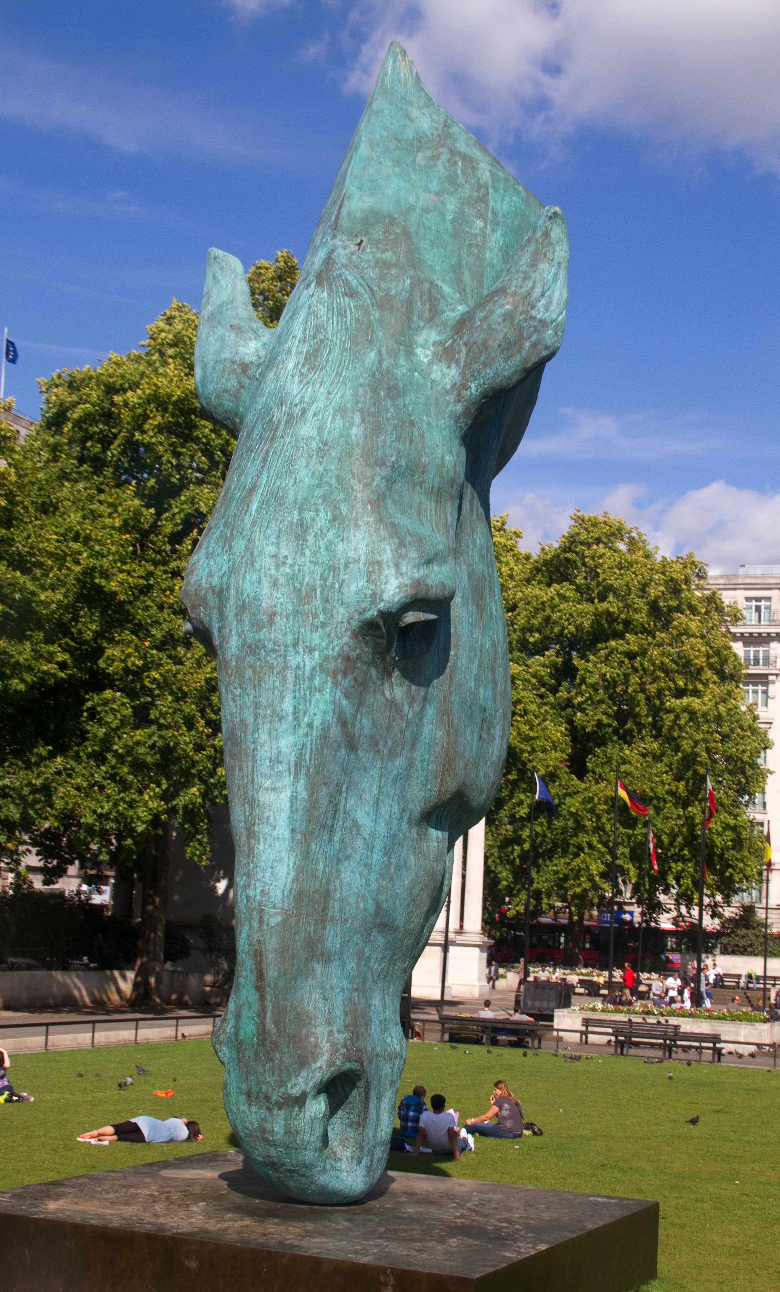 Still Water (2010) by Nic Fiddian-Green, installed near Marble Arch. At 33ft high this is the largest free-standing bronze sculpture in London.